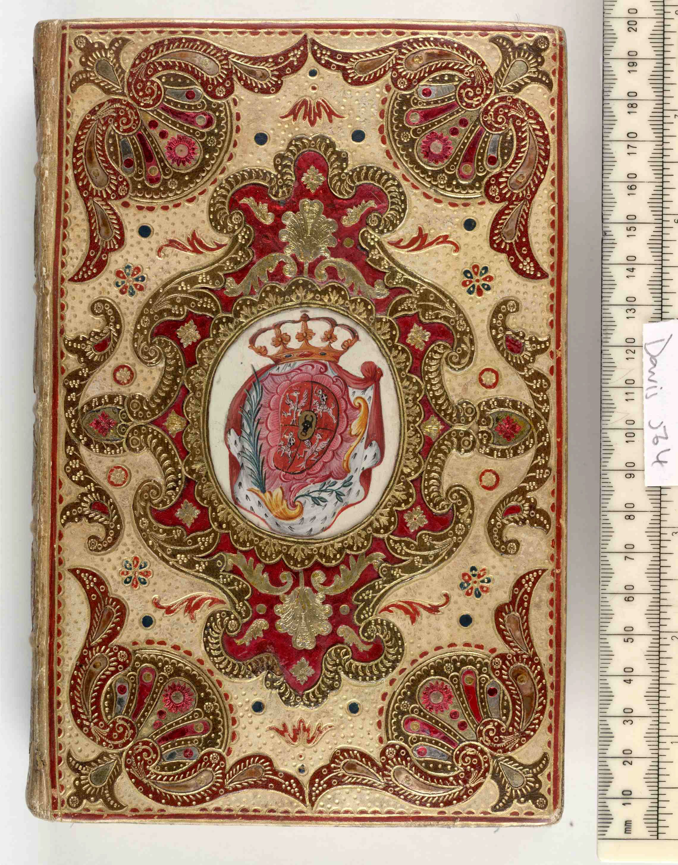 Style: Armorial; Caption: Upper cover; Colour: White / cream; Edge: Gilt